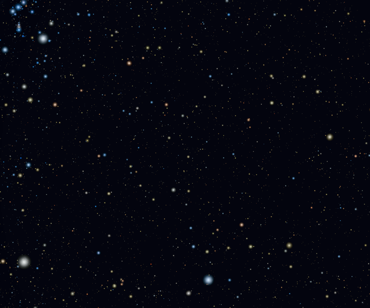 Image of Eridanus